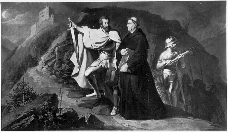 Christoph von Langenmantel bringt Luther nach Hohenschwangau, Fresko von Wilhelm Lindenschmit dem Älteren, Schloss Hohenschwangau,1. Obergeschoß, Schwangauer Zimmer